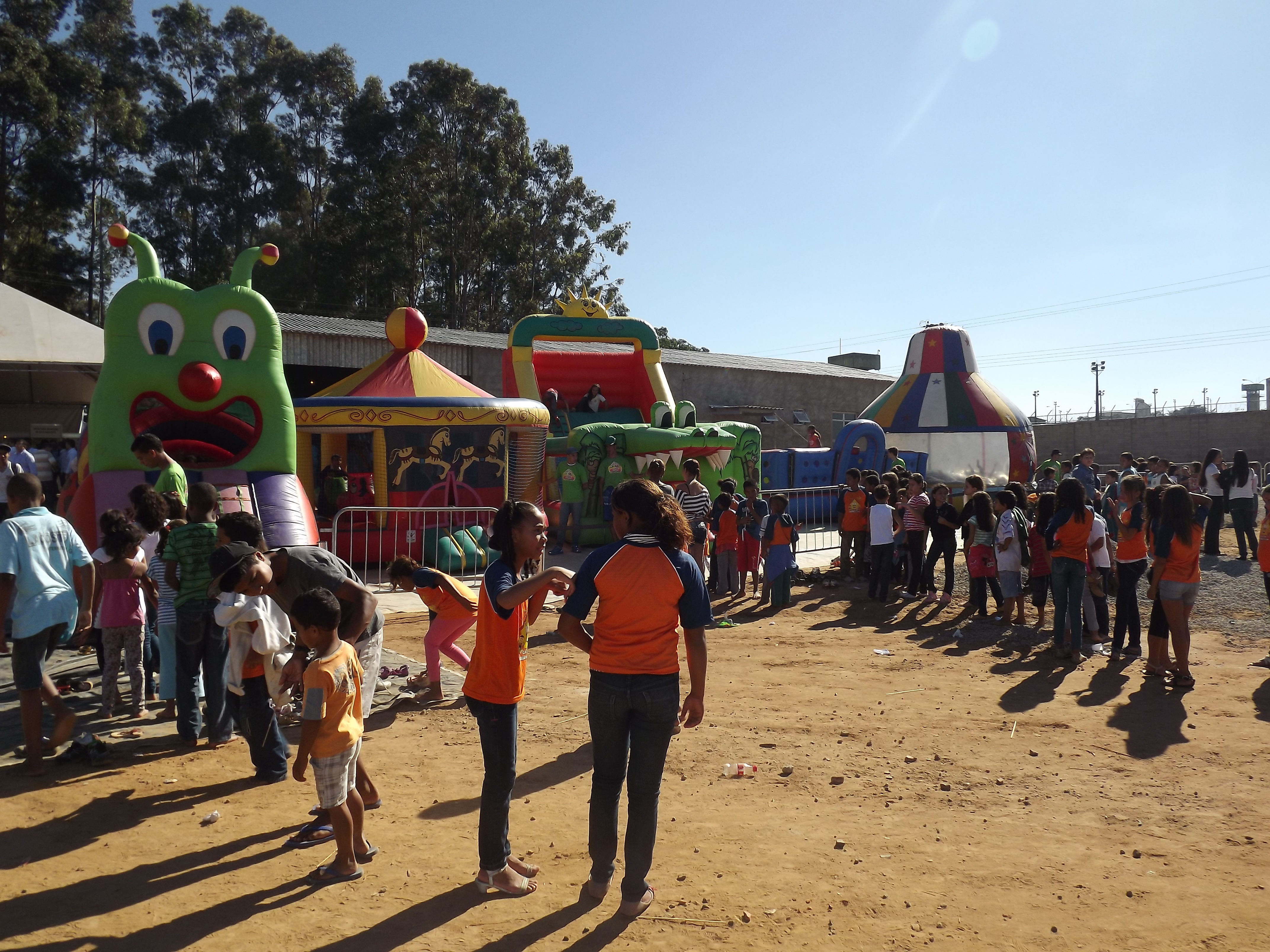 Children of municipal school in park of Hortolândia, São Paulo, Brazil.